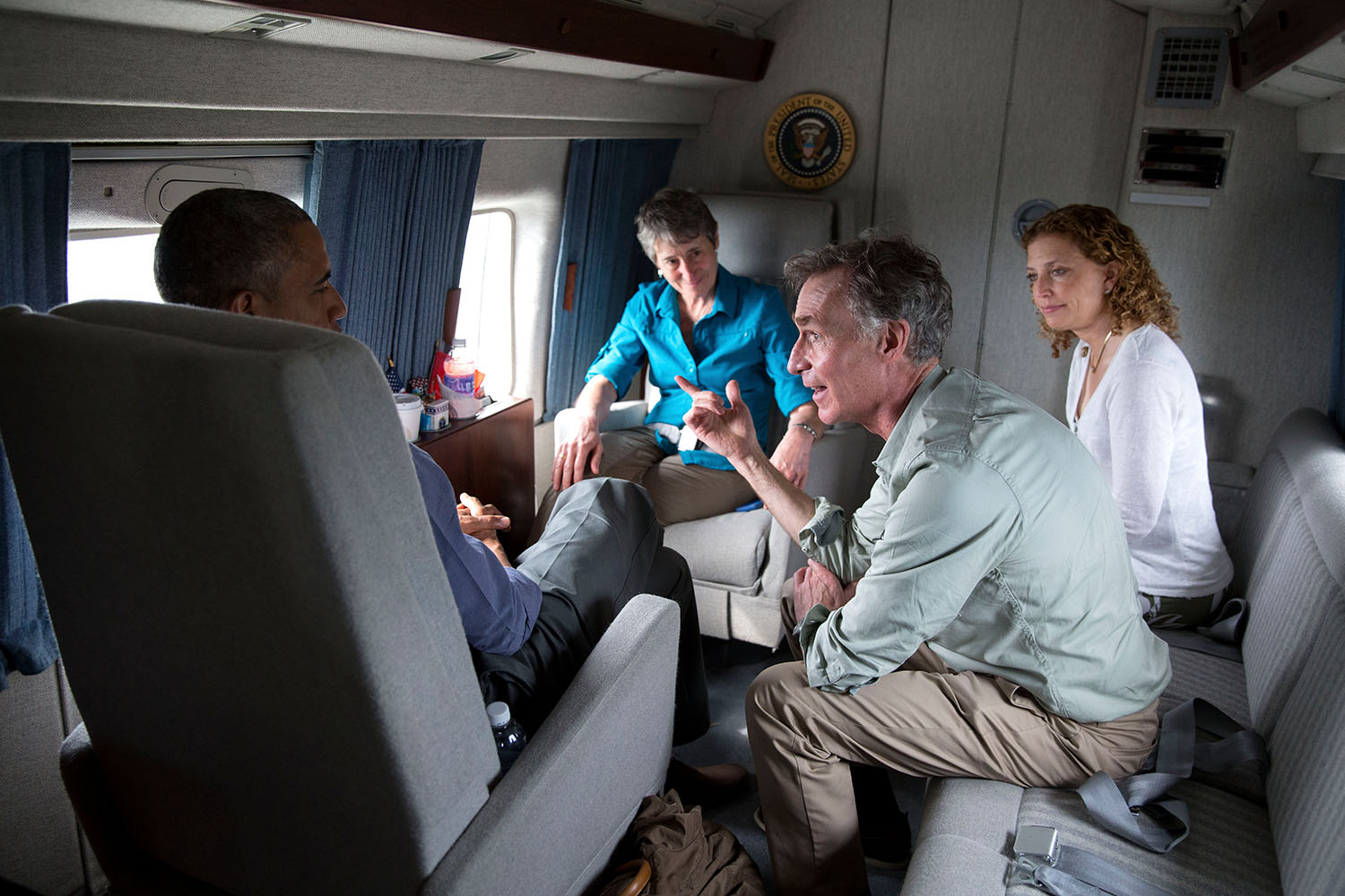 President Barack Obama talks with Bill Nye, the Science Guy, Rep. Debbie Wasserman Schultz, D-Fla., and Interior Secretary Sally Jewell aboard Marine One en route to Miami International Airport following a visit to Everglades National Park, Fla., on Earth Day, April 22, 2015. (Official White House Photo by Pete Souza)